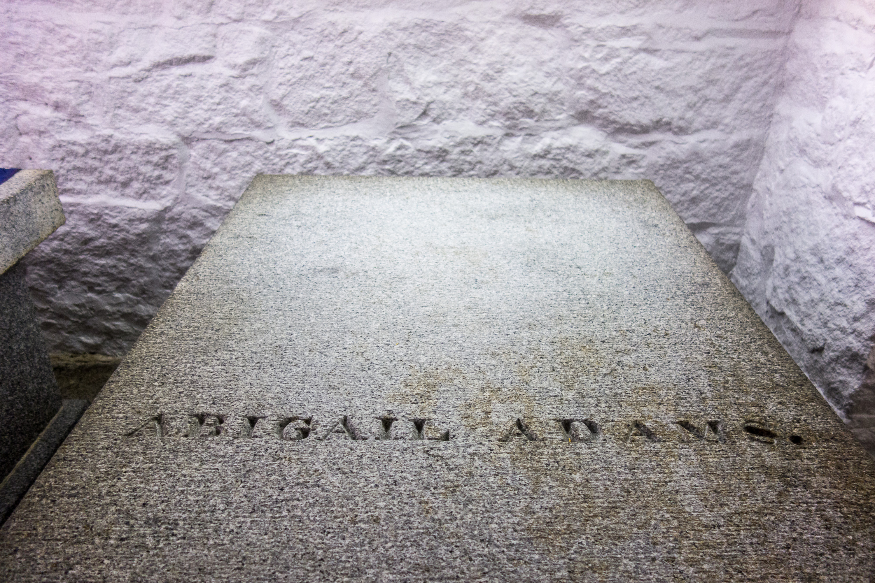 United First Parish Church, Quincy, MA